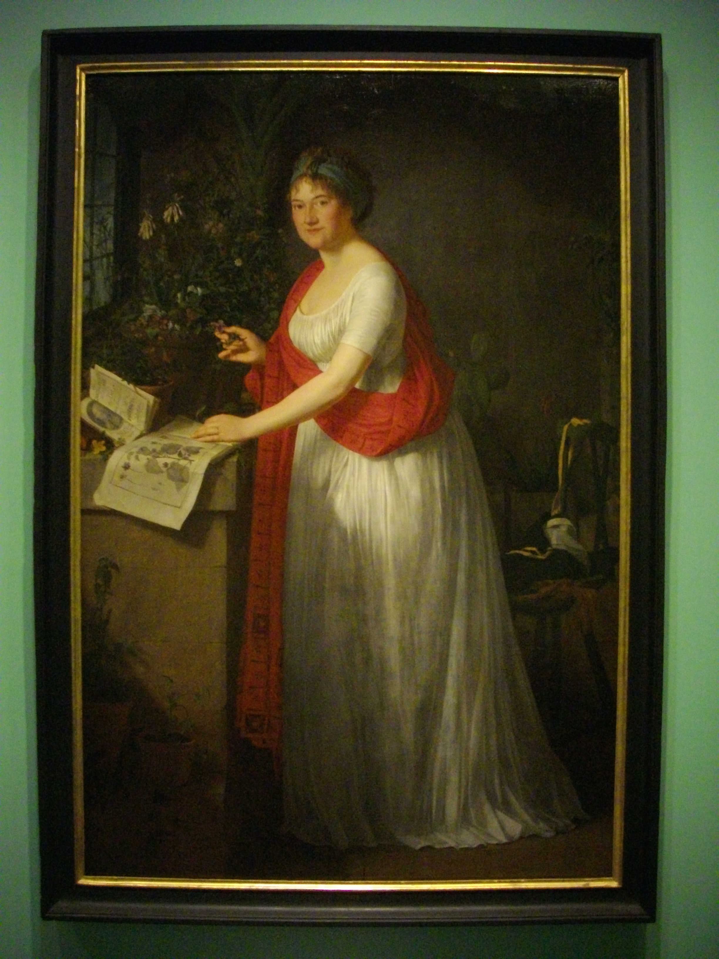 Fine arts museums of Orléans (Loiret, France) : Julie Philipault, Portrait of Marie-Sylphide Calès, born Chardou, 1800s